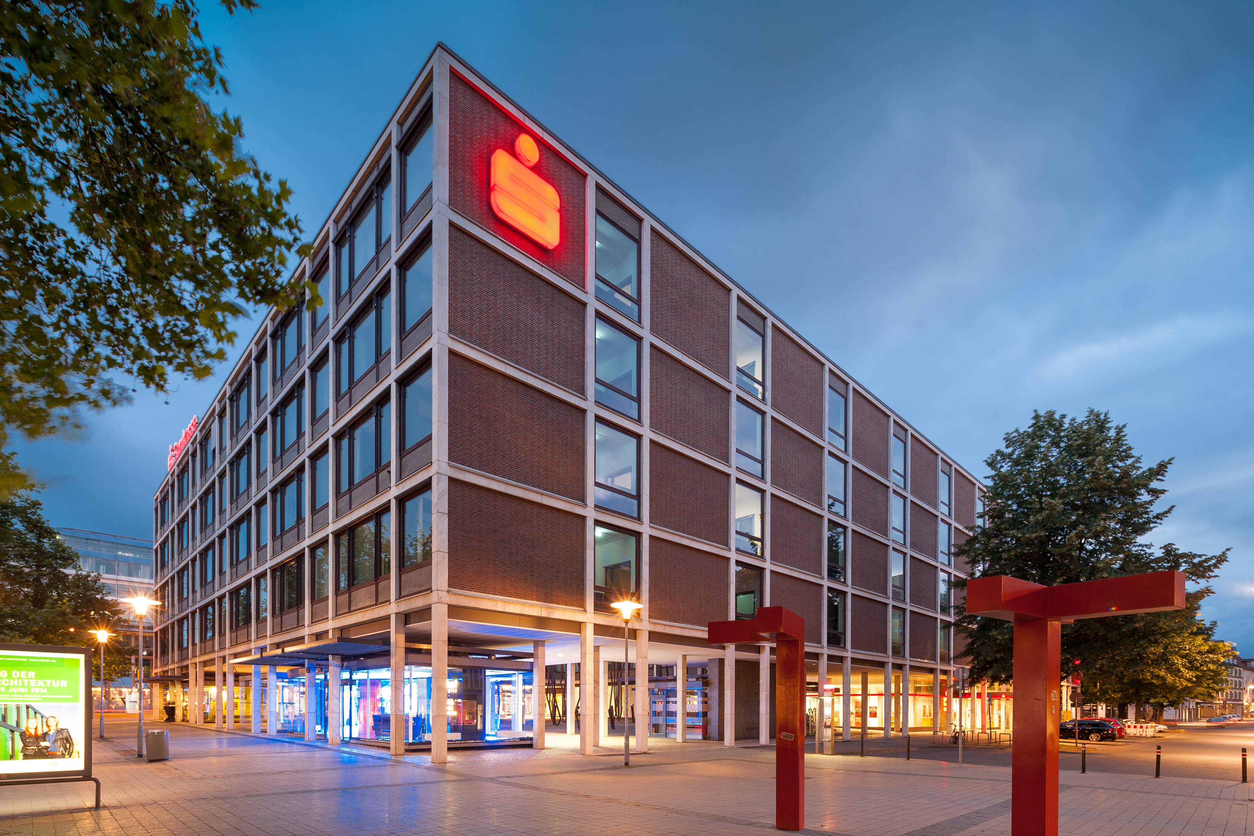 Office building of Sparkasse Hannover bank, located at Aegidientorplatz square in Hanover, Germany.